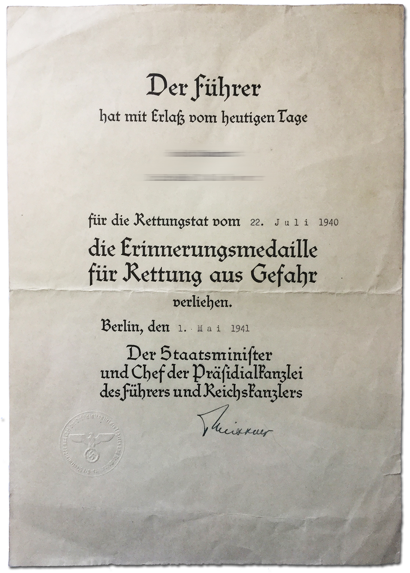 Award certificate for the "Memorial Medal for Rescue from Danger"